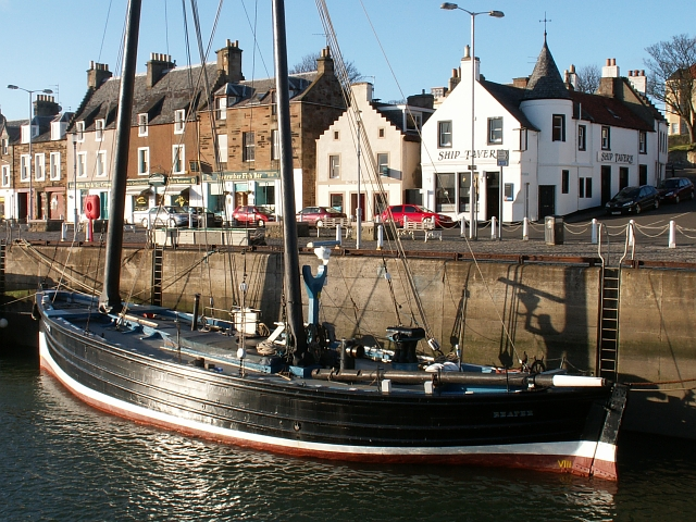 Shore Street and the Reaper